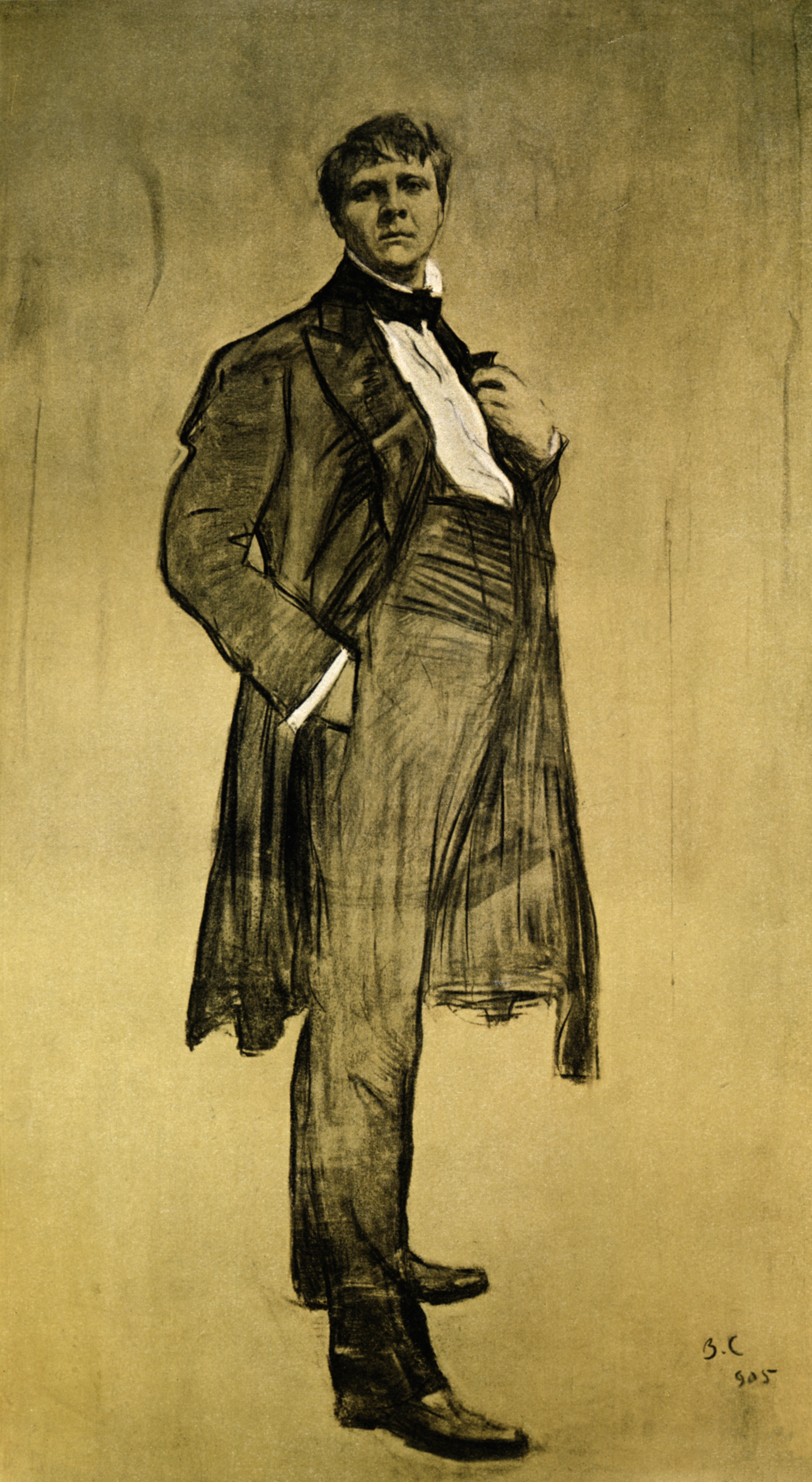 Russian bass, Feodor Chaliapin (1873 - 1938)